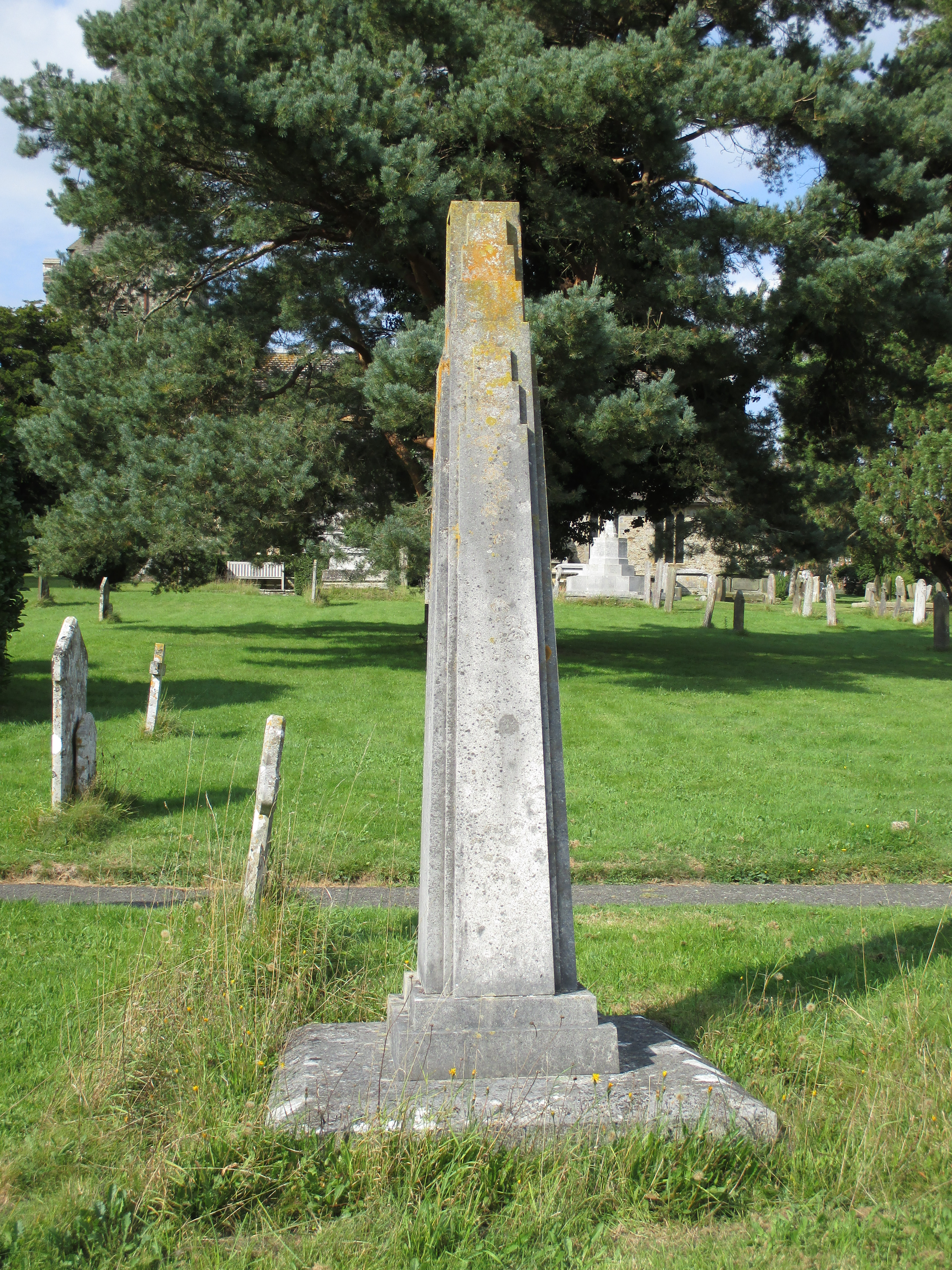 The Kingsley obelisk, raised over the grave of the Victorian novelist Henry Kingsley, in the churchyard of Holy Trinity Church, Cuckfield, West Sussex.